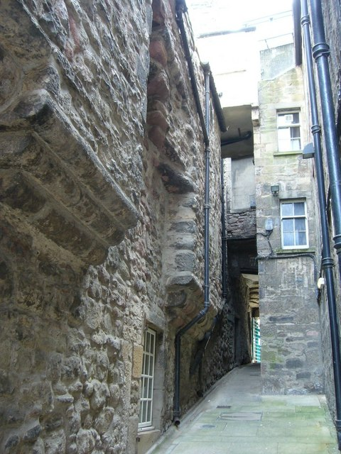 Trunk's Close in the High Street gives the modern visitor a sense of the cramped conditions that formerly prevailed in Edinburgh's Old Town. The highly influential 'Edinburgh Review' was published from a shop in this close in the early years of the 19th century.